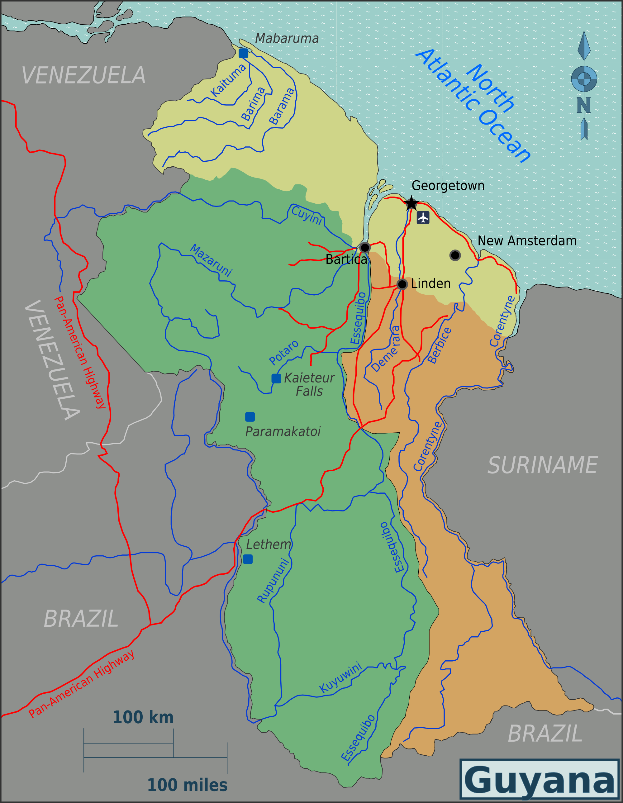 Map of Guyana for use on Wikivoyage, English version This is a temporary file created for discussion purposes. Please, use the current version instead!